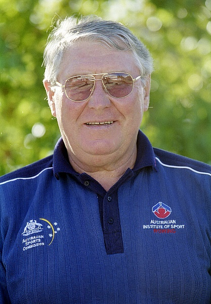 Australian Institute of Sport Head Rowing Coach Reinhold Batschi Portrait 2003